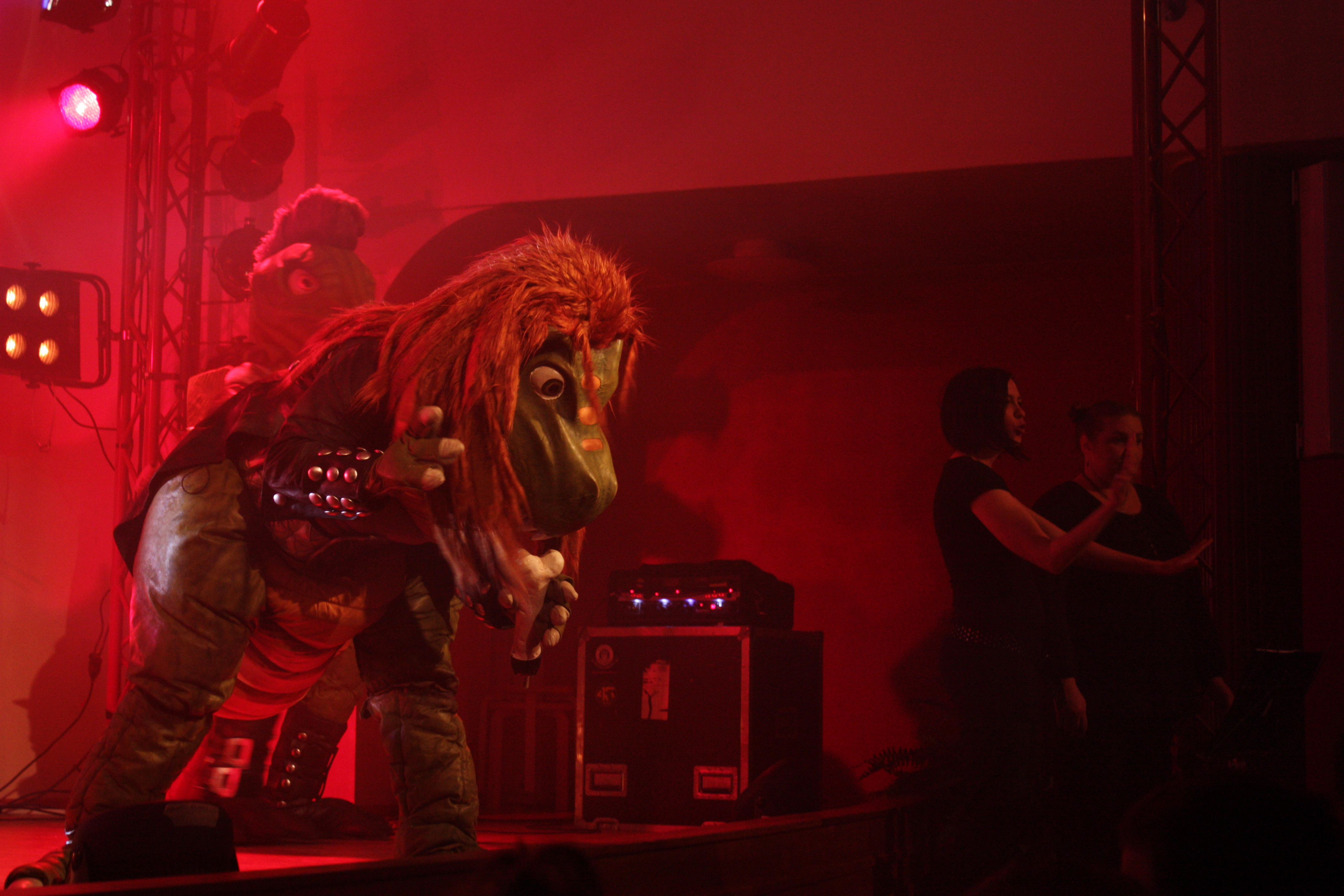 On right two signers (sign language interpreters) signing the performance of the Finnish childrens' band Hevisaurus in Kulttuuritalo KIVA in Salo, Finland